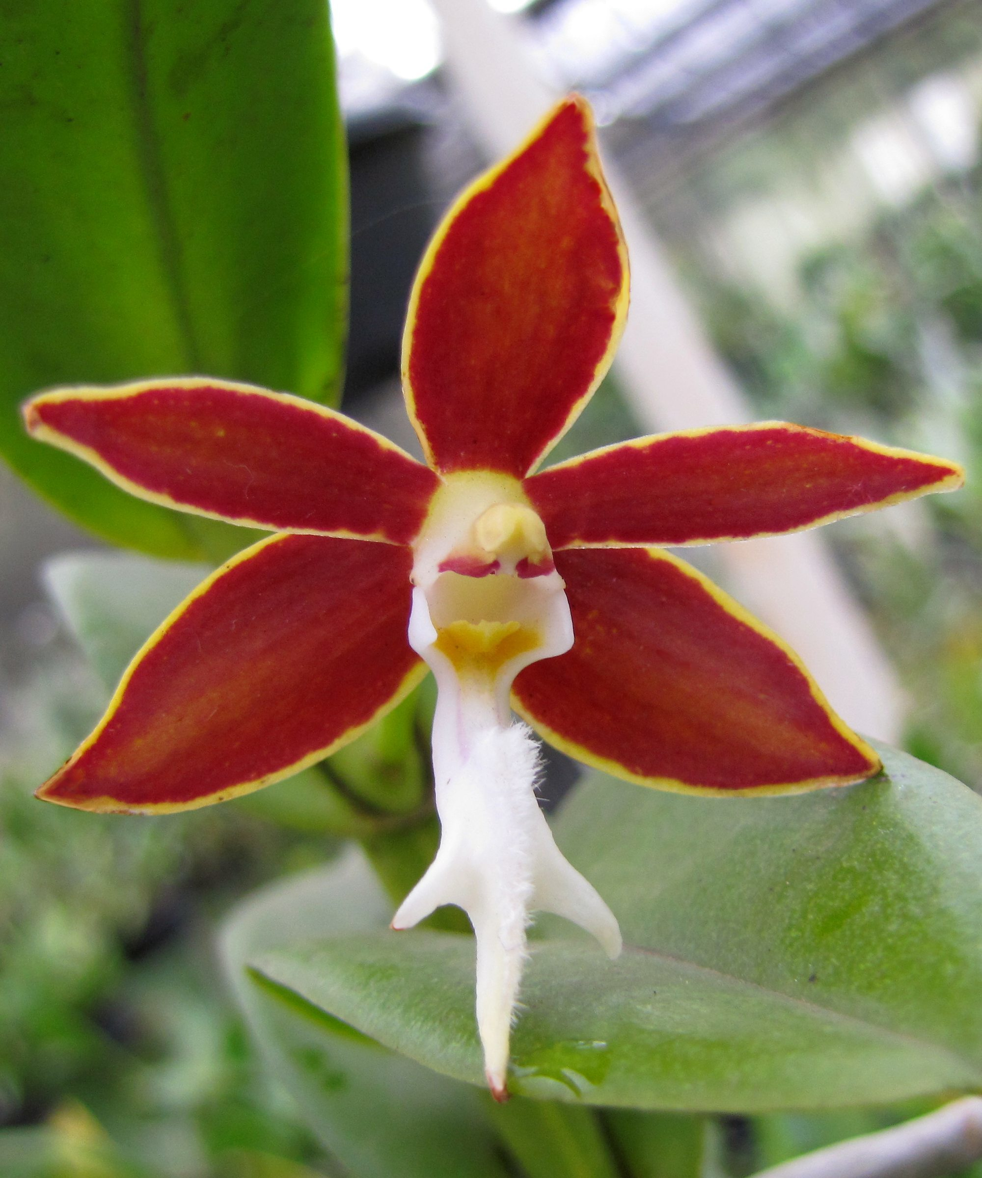 Trichoglottis philippinensis - Blooming in 20/Dec/2012 - in Brazil